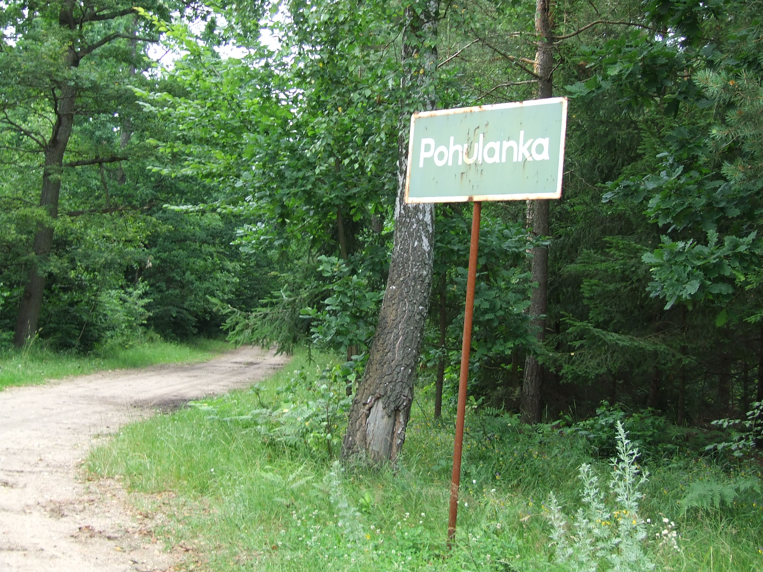 This photo from Podlaskie Voievodeship was taken during Polish Wikiexpedition 2009 set up by Wikimedia Polska Association. The making of this document was supported by Wikimedia Polska.